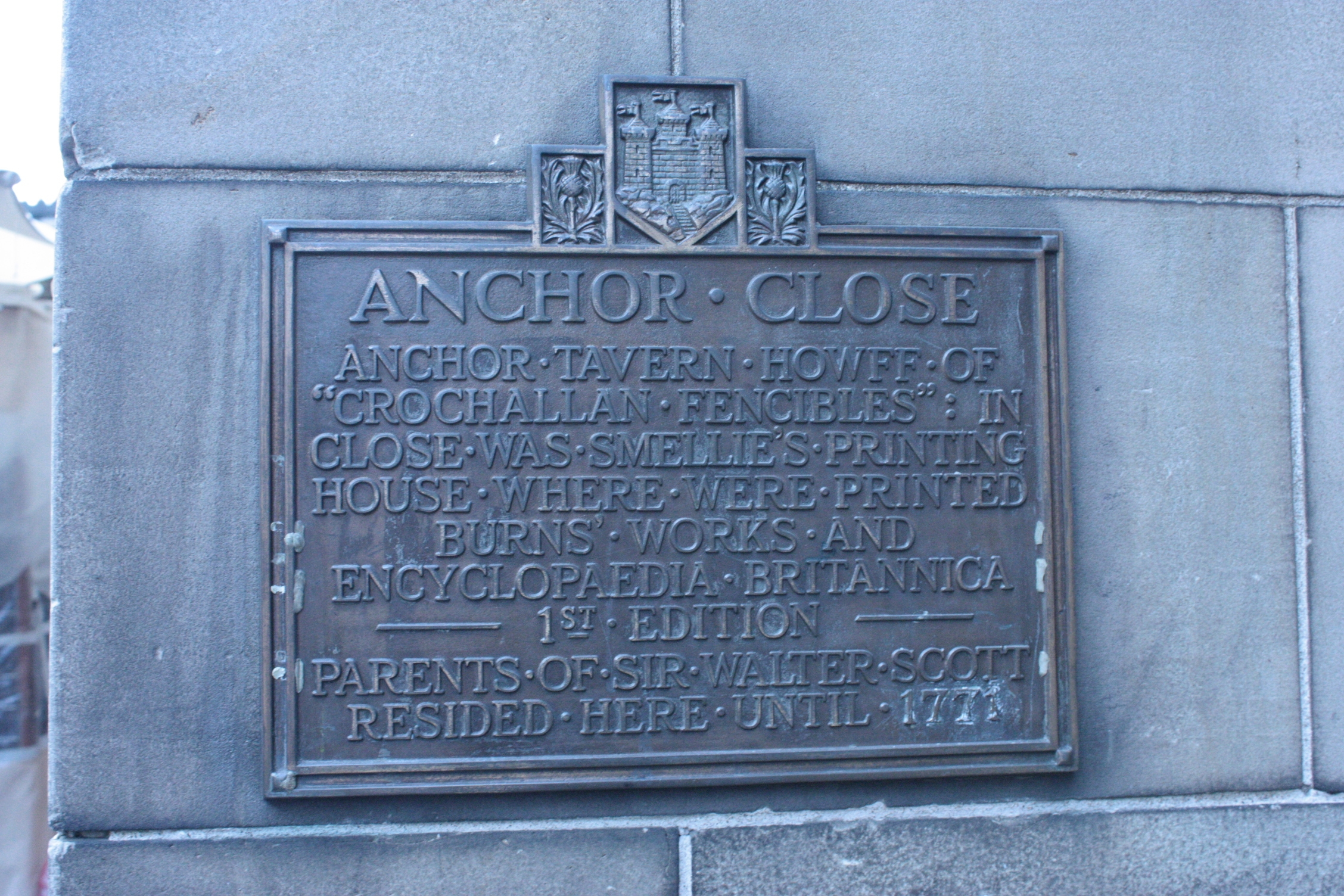 Edinburgh Corporation plaque from 1930s